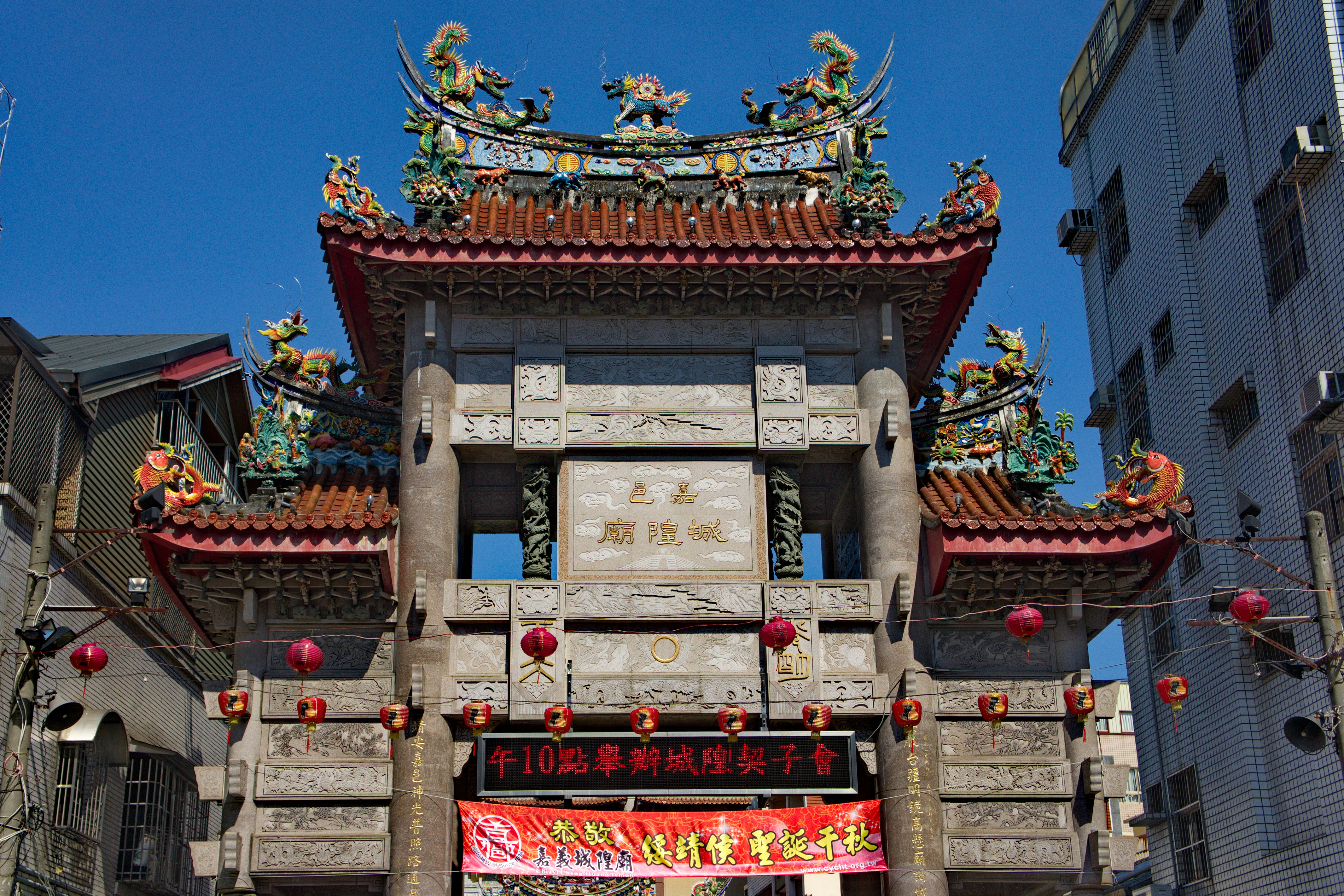 Chiayi Cheng Huang (City God) Temple, Pailou (arch), Taiwan.